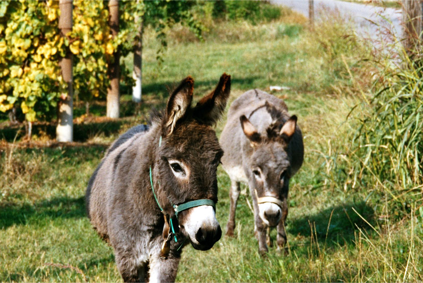 Photo of two donkeys (Equus asinus) in Italy.